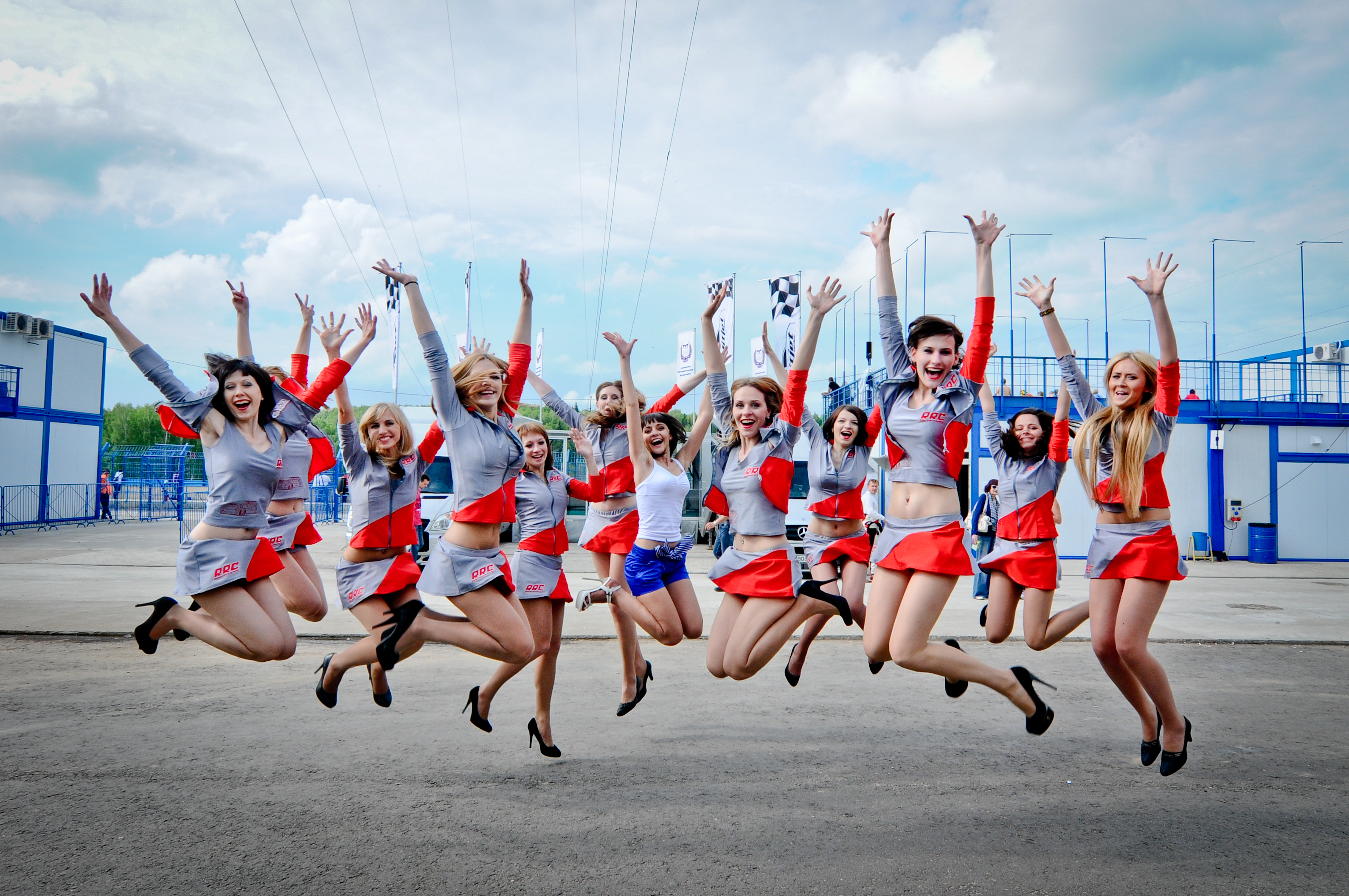 гриды